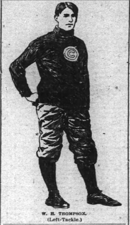 This is a sketch of W. H. Thompson, a Left Tackle for the Chicago Athletic Association college football team in 1895.